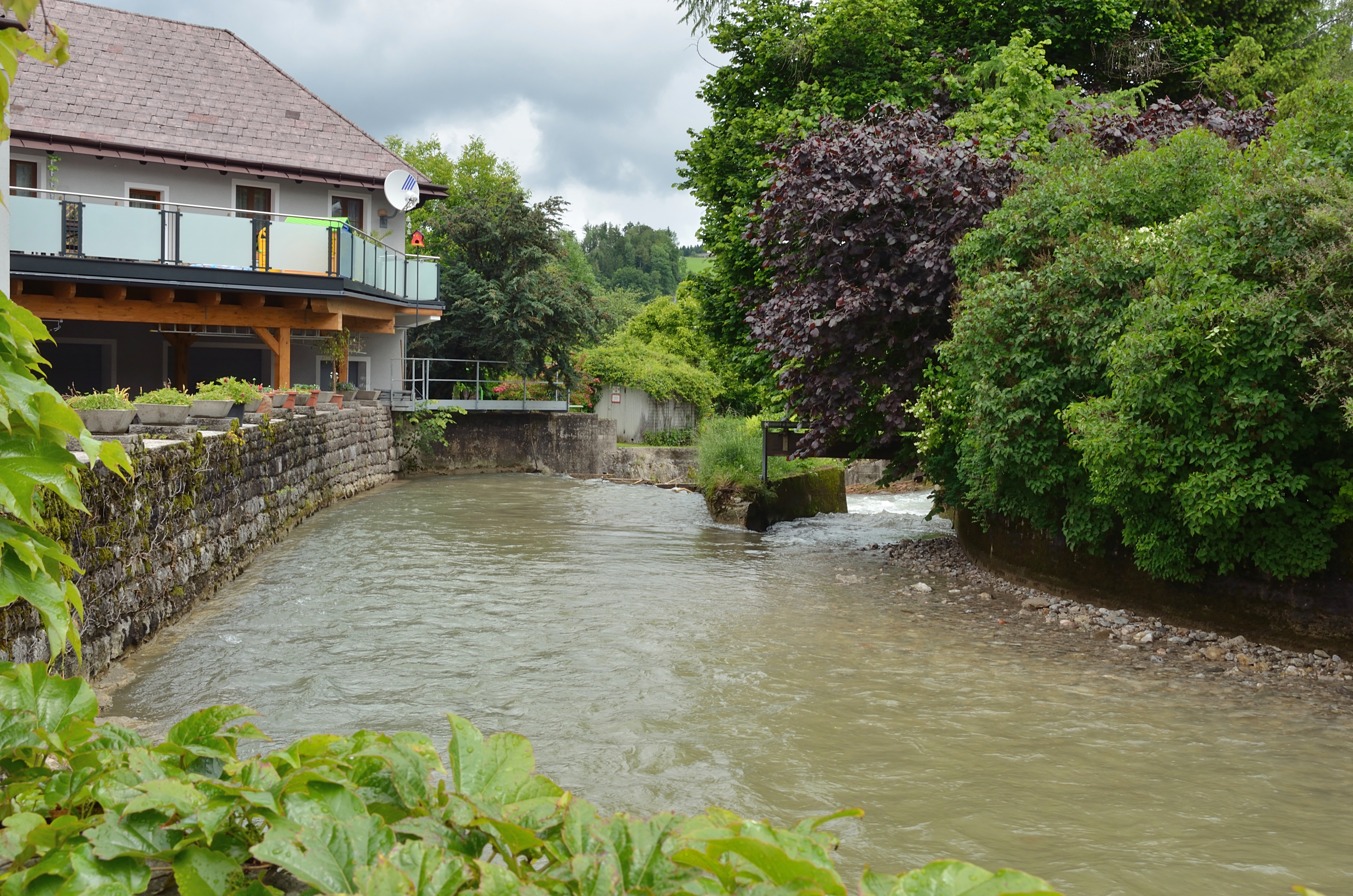 Kleine Erlauf (small Erlauf river) at Gresten, Lower Austria.